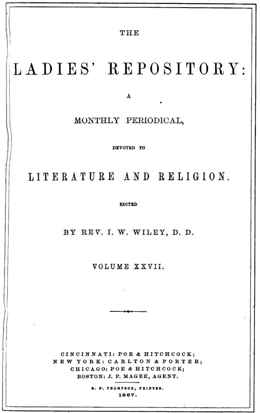 Front cover of Ladies' Repository, 1867, vol. 27